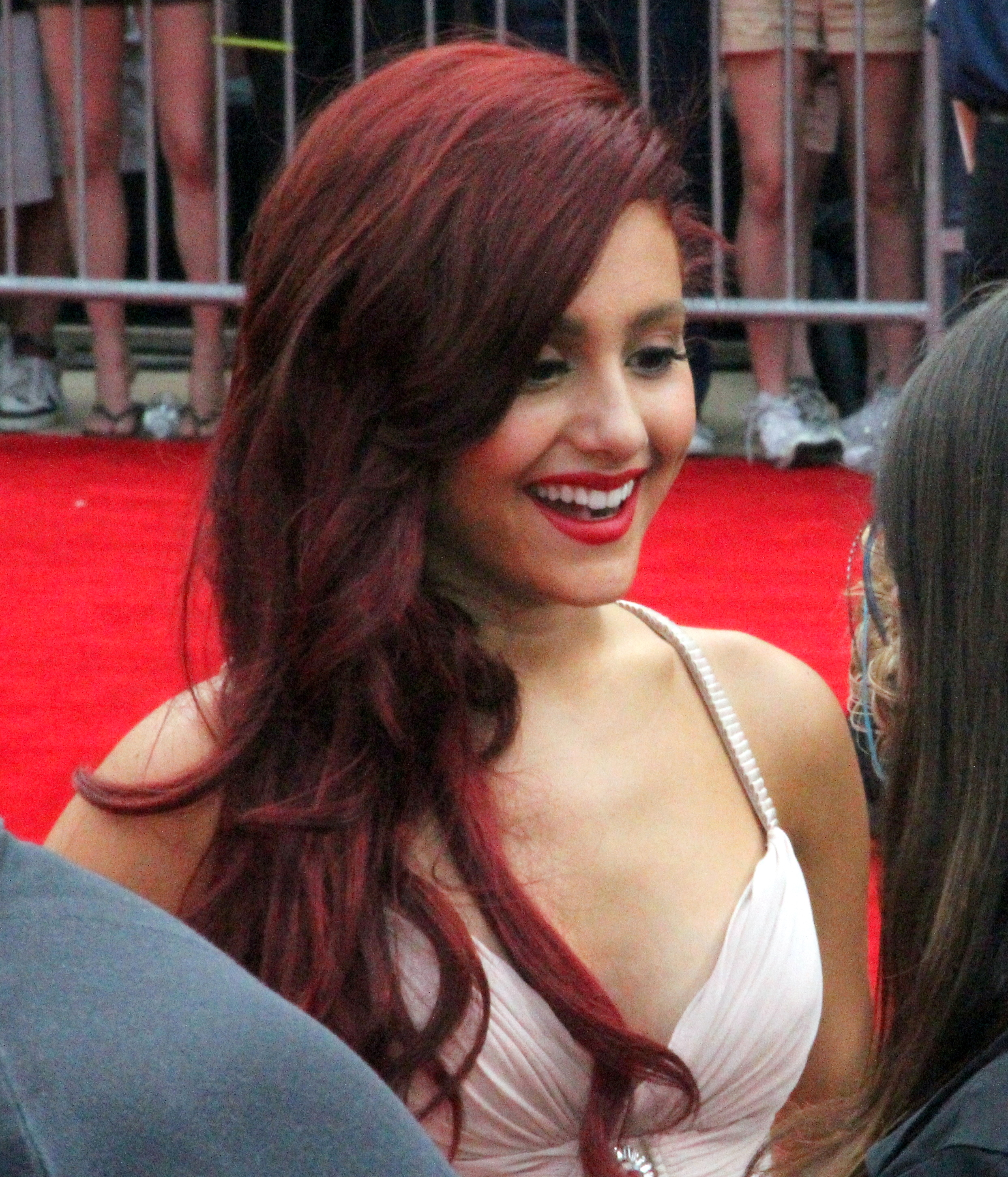 Ariana Grande at the film premiere of Harry Potter and The Deathly Hallows: Part 2 in Avery Fisher Hall-Lincoln Center, New York City.